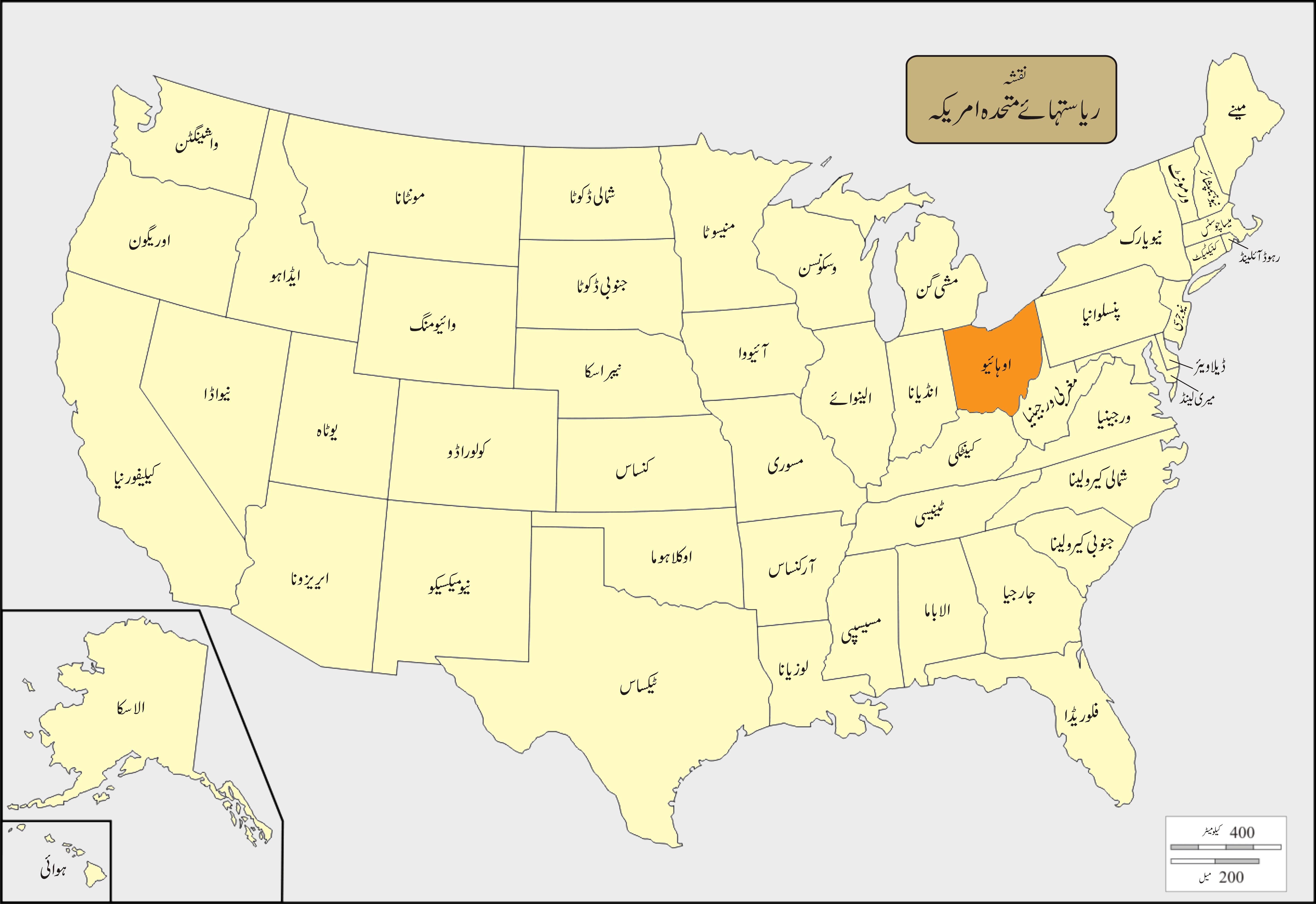 USA Names Ohio